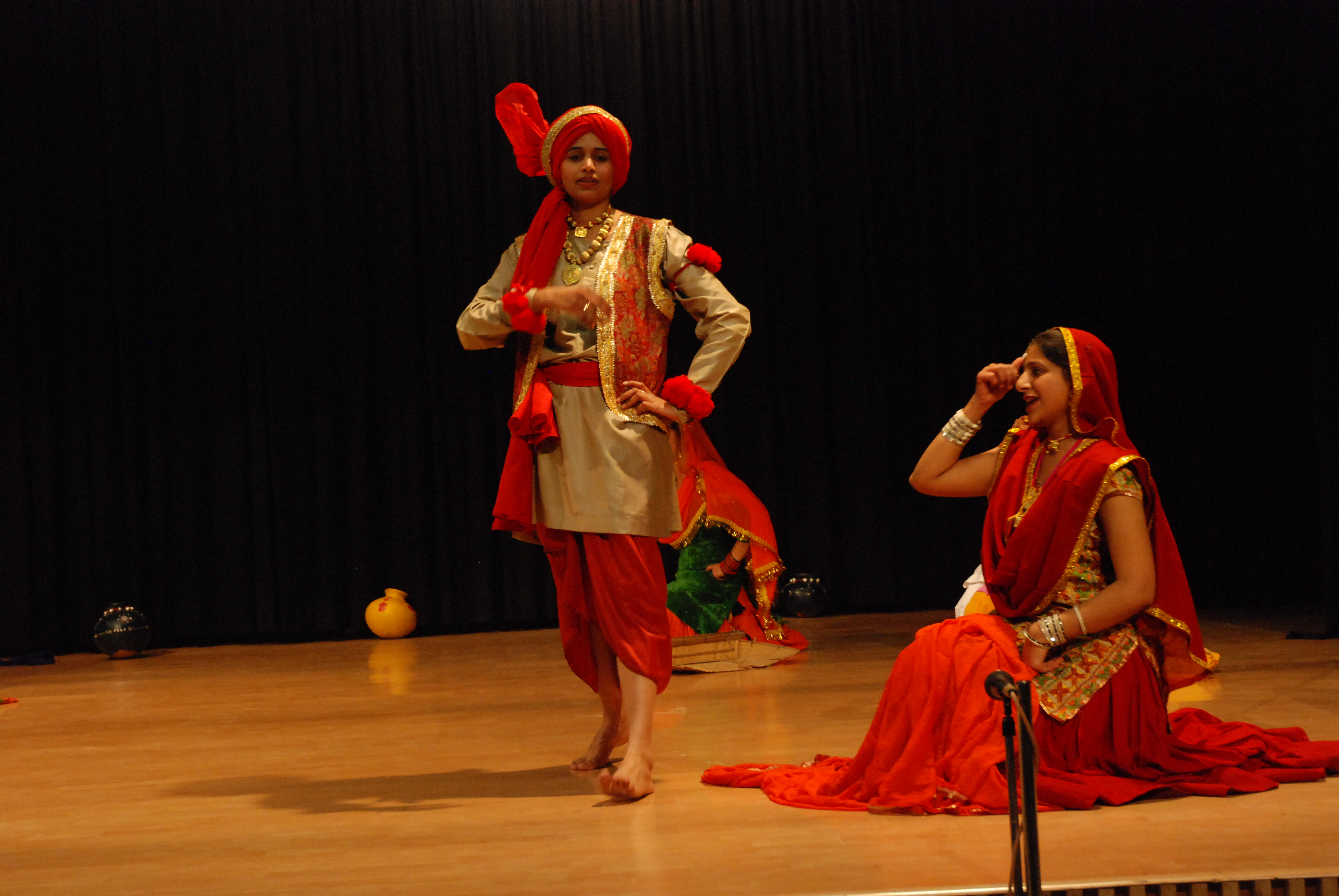 Punjabi folk Dance